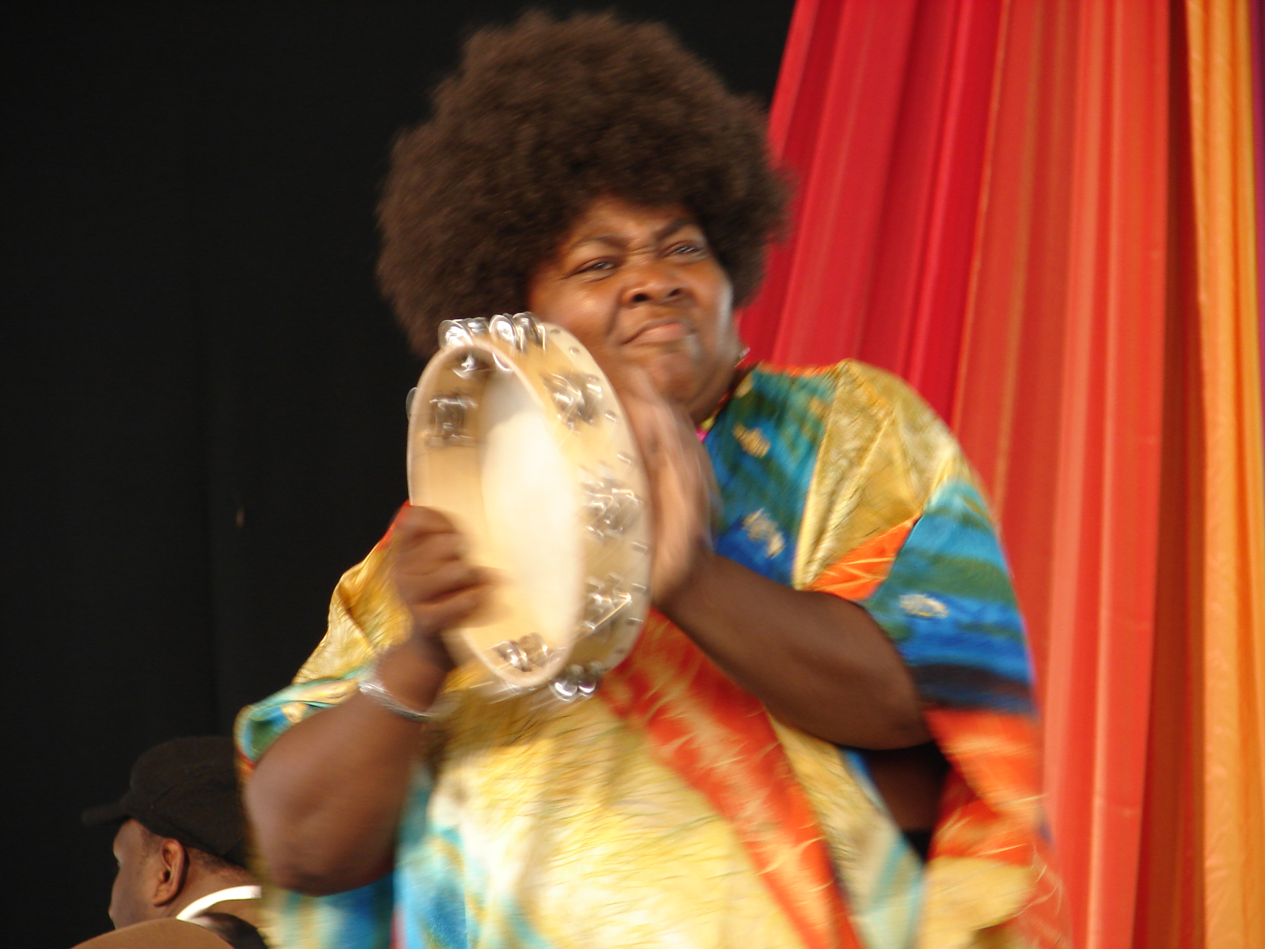 Rosalie "Lady Tambourine" Washington at the Gospel Tent Jazzfest. She joined John Lee and the Heralds of Christ on stage. A New Orleans Original, Rosalie "Lady Tambourine" Washington is also a substitute teacher and Superdome parking attendant.